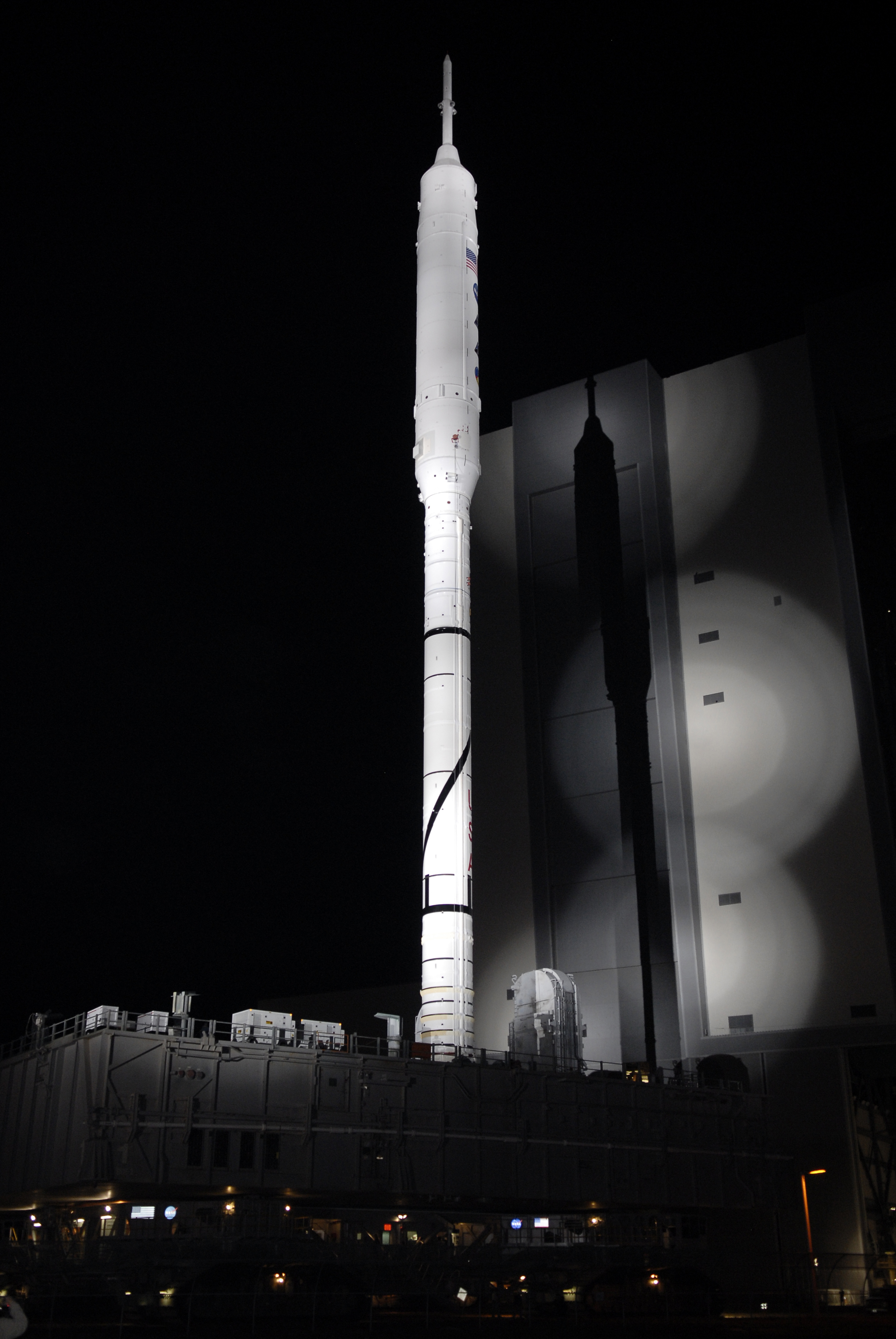 The towering 327-foot-tall Ares I-X rocket moves away from the Vehicle Assembly Building at NASA's Kennedy Space Center in Florida. The rocket, riding atop a crawler-transporter, is headed for Launch Pad 39B. The move to the launch pad, known as "rollout," began at 1:39 a.m. EDT. The transfer of the pad from the Space Shuttle Program to the Constellation Program took place May 31. Modifications made to the pad include the removal of shuttle unique subsystems, such as the orbiter access arm and a section of the gaseous oxygen vent arm, along with the installation of three 600-foot lightning towers, access platforms, environmental control systems and a vehicle stabilization system. Part of the Constellation Program, the Ares I-X is the test vehicle for the Ares I. The Ares I-X flight test is targeted for Oct. 27.